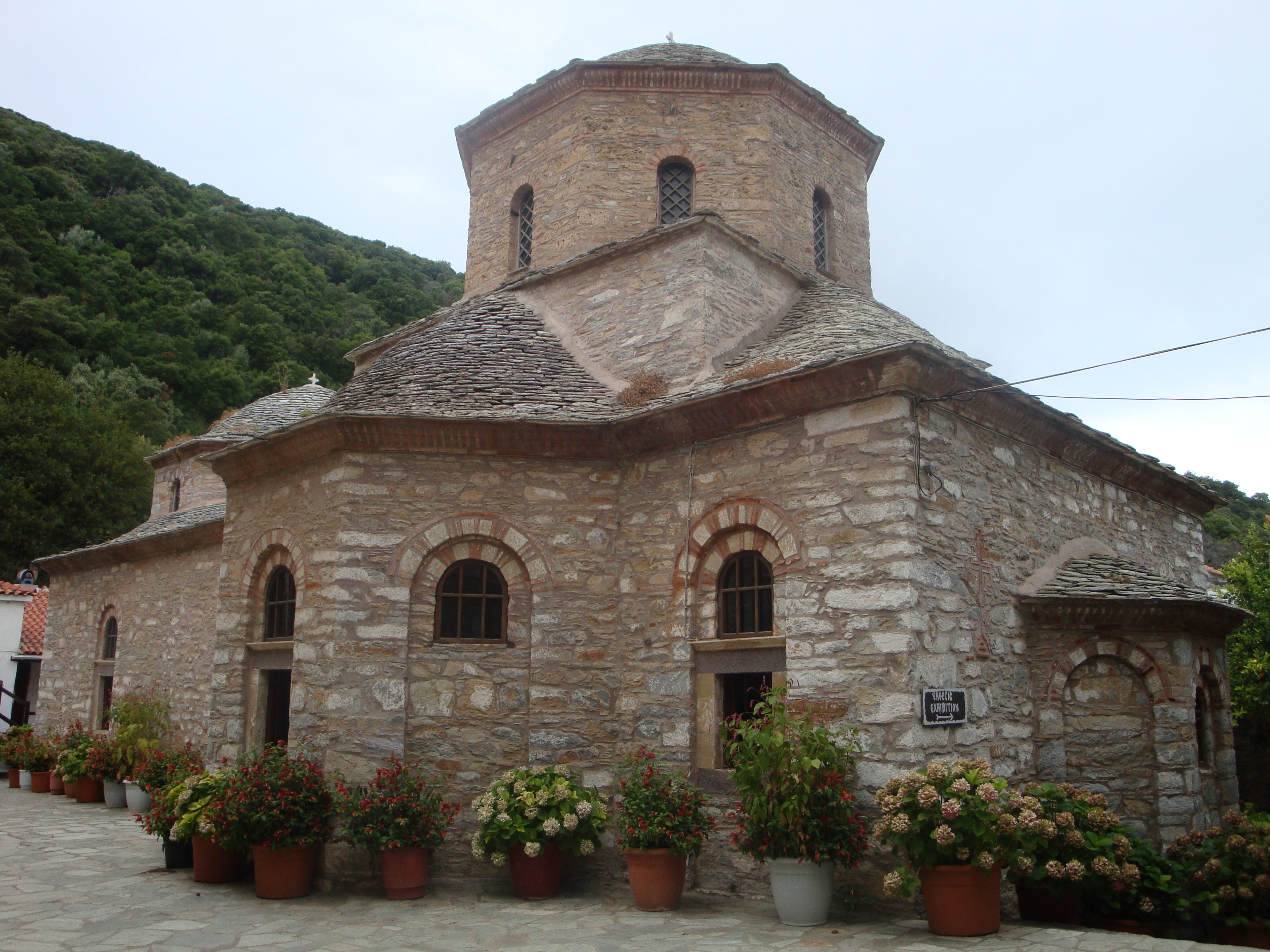 скијаос